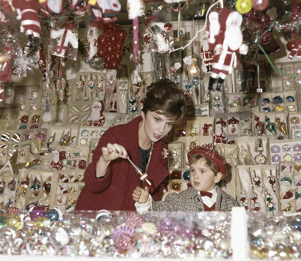 Rome, December 17, 1962. From left to right: Italian actress Gina Lollobrigida with her son Andrea Milko Škofič in a Christmas decoration shop in Piazza Navona.